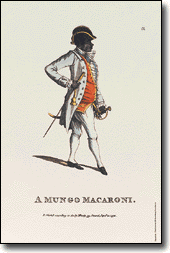 British print from copper engraving by Matthew Darly and Mary Darly (from a drawing by Henry Angelo), part of a famous 1771-1773 series on "Macaronis" (fashionable young men). The "Mungo Macaroni" (Mungo - a name of a slave character from a comic opera) is based on Julius Soubise